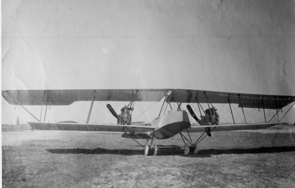 PictionID:43640615 - Catalog:16_004707 - Title: Schütte-Lanz G.I - Filename:16_004707.TIF - - - - - - - Image from the Ray Wagner Collection. Ray Wagner was Archivist at the San Diego Air and Space Museum for several years and is an author of several books on aviation --- ---Please Tag these images so that the information can be permanently stored with the digital file.---Repository: San Diego Air and Space Museum